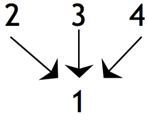 An example of independent premises